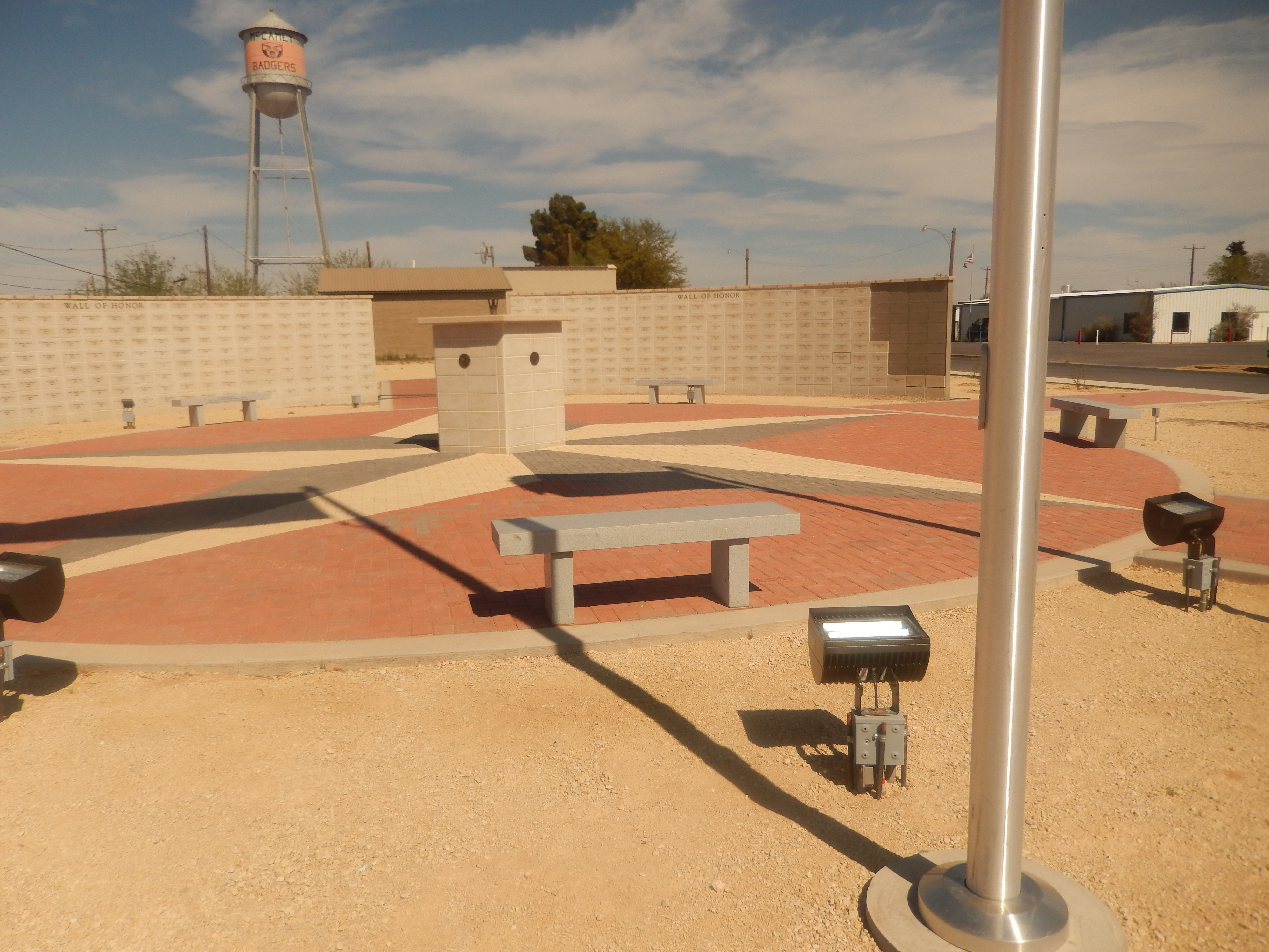 I took photo with Nikon camera of Veterans Monument in McCamey, TX.